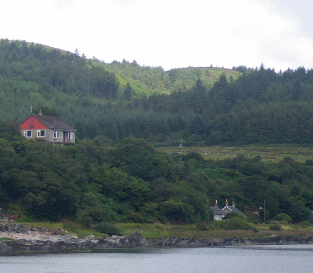 Wooded coastal slopes at Torr Mor, near to Carradale, Argyll And Bute, Great Britain.